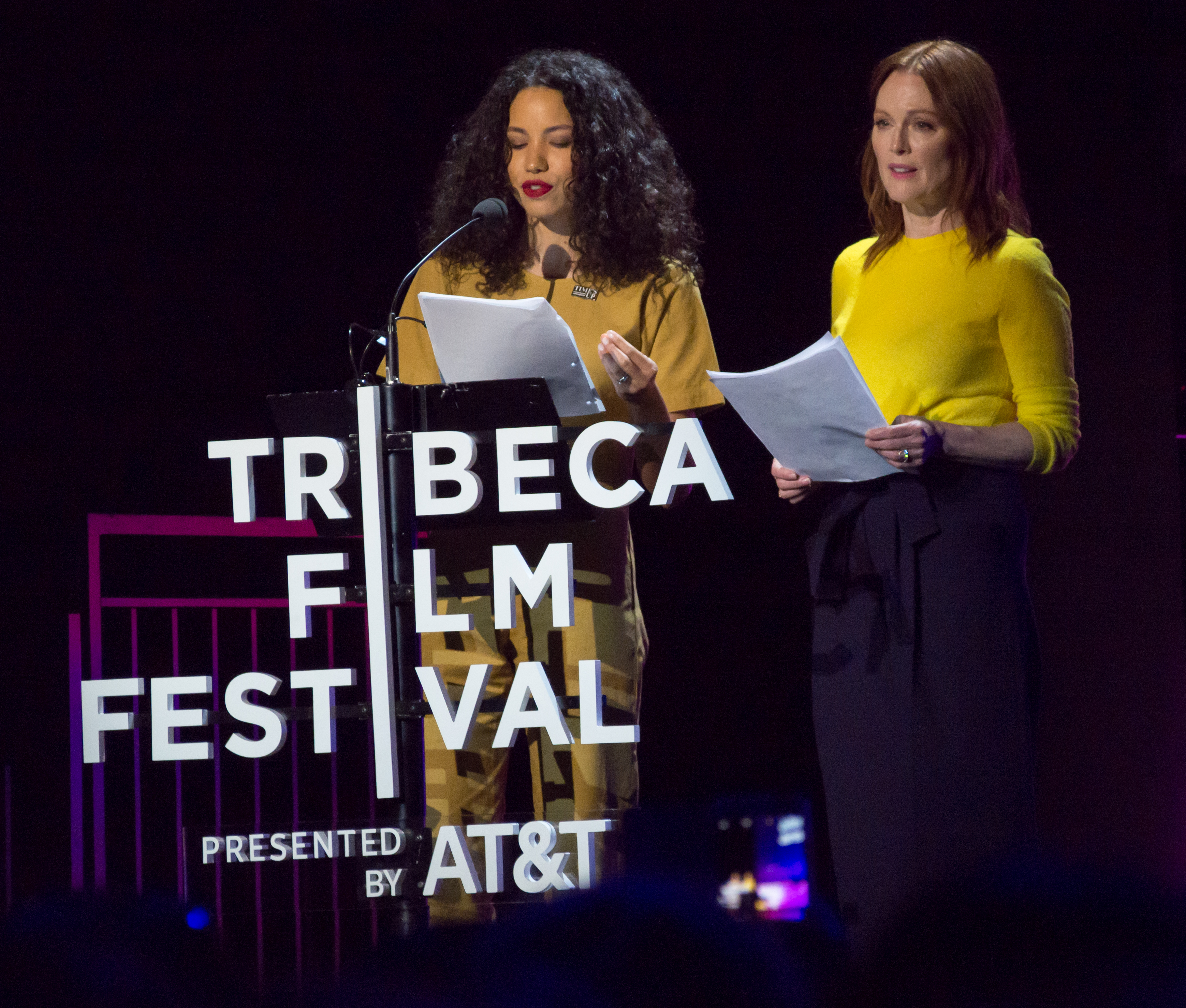 Time's Up event at the 2018 Tribeca Film Festival (Tribeca Talks: Time's Up). A series of talks/performances about Time's Up/sexual harassment. Jurnee Smollett-Bell and Julianna Moore introducing the Time's Up event.